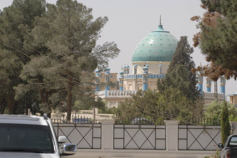 The Friday Mosque of Kandahar City in Afghanistan. Within the compound is also the tomb of Ahmad Shah Durrani, the founder of the state of Afghanistan, and the site of a cloak which is believed to be worn by the Islamic Prophet Muhammad. It has switched hands until finally resting here.